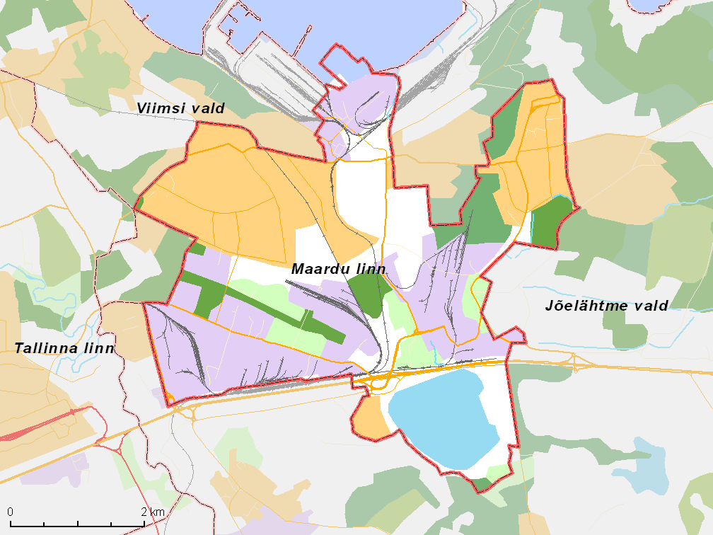 Map of municipality in Estonia